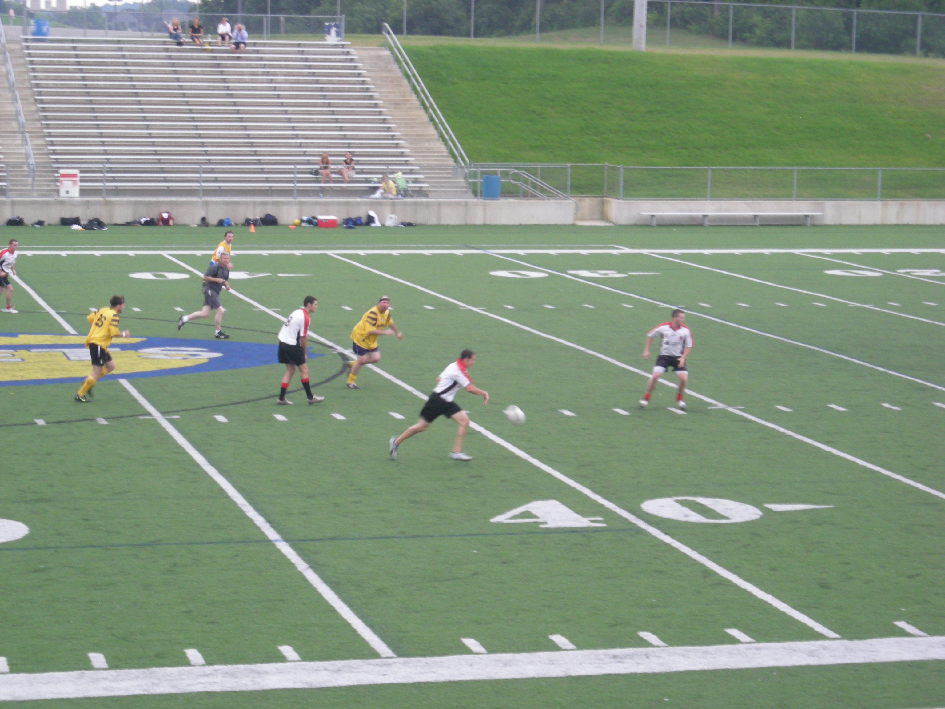 A Detroit player solos the ball during the Detroit Wolfetones [white] vs. Cleveland St. Jarlath's [yellow] Gaelic football match at Hornet Stadium in Saline, Michigan (United States).